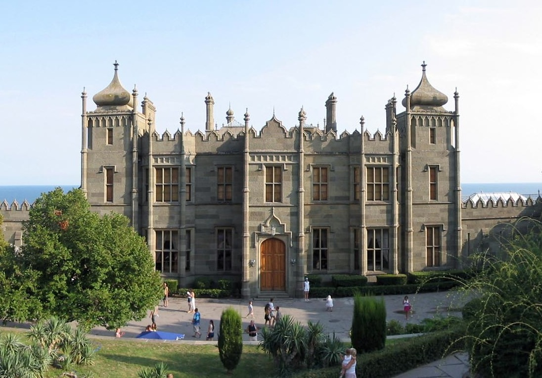 View of the Vorontsov Palace (Alupka), north facade.